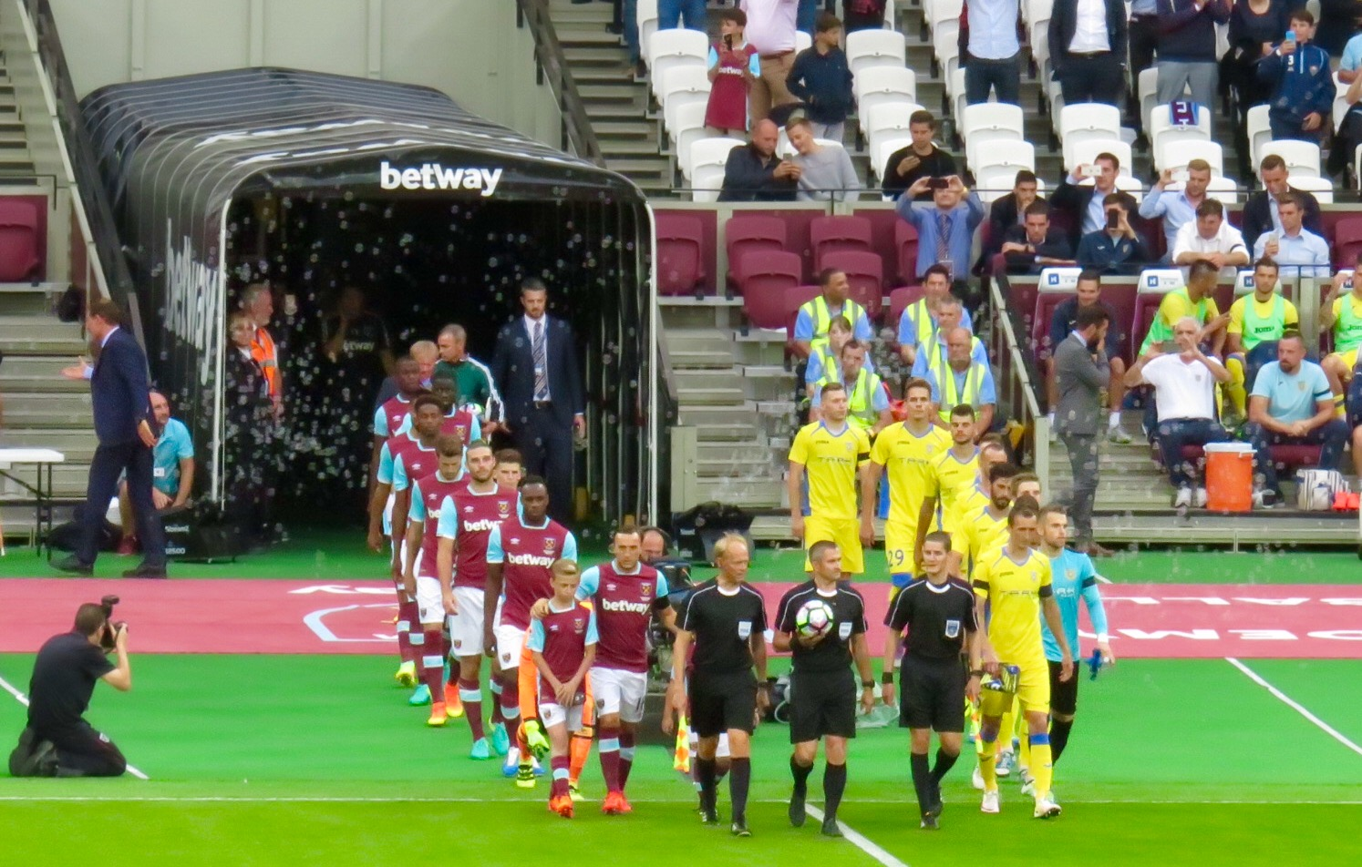 The players of West Ham United and NK Domzale enter the pitch of the London Stadium before their Europa League Third Qualifying round, second leg match.